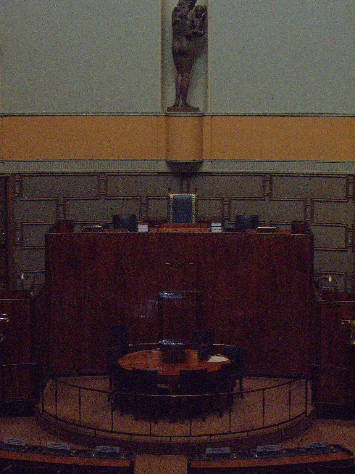 Desk of Speaker of the Parliament of Finland